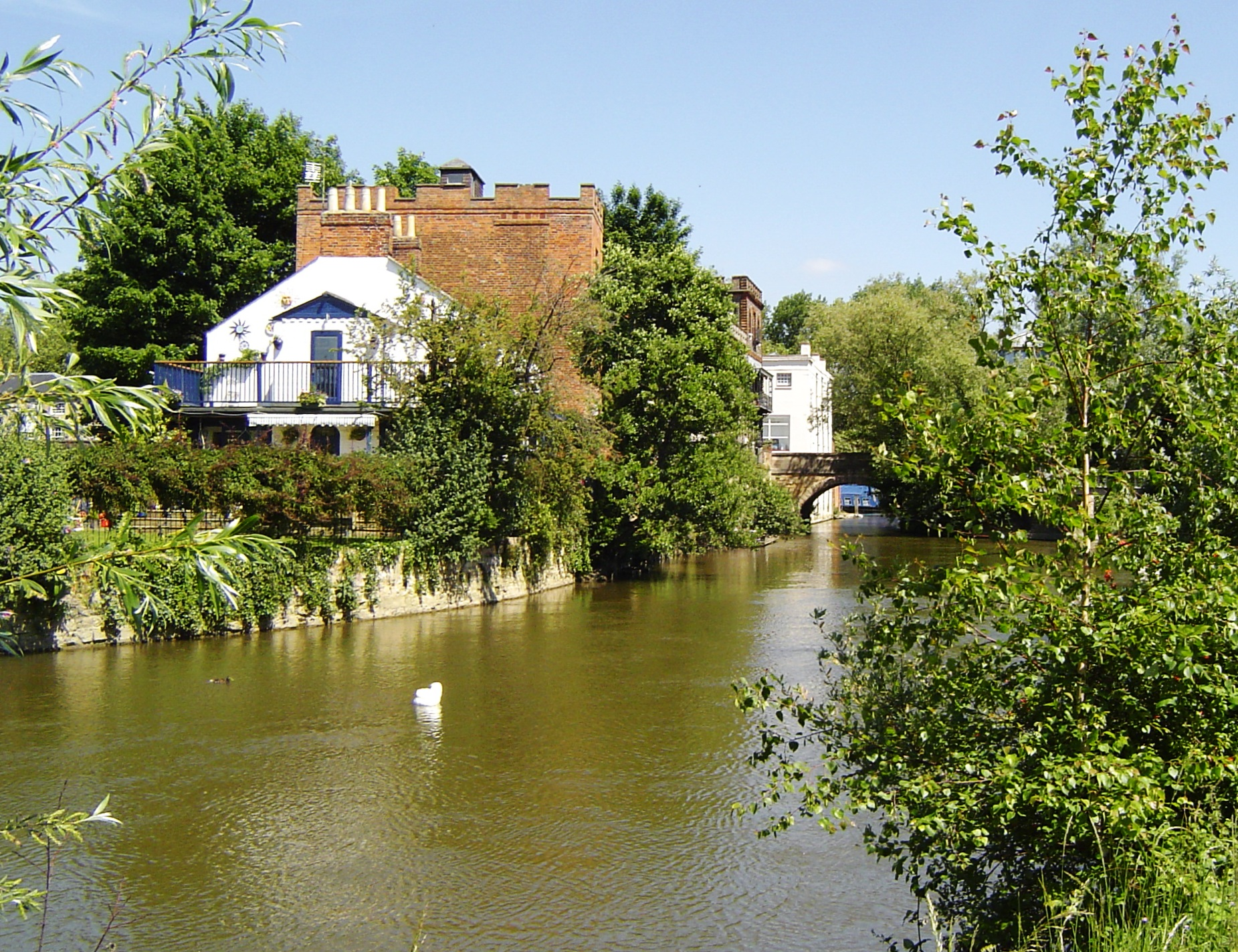 South Bridge, the southern part of Folly Bridge Oxford